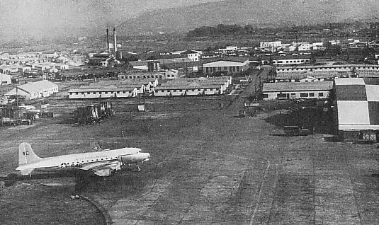 Itami Air Base in 1950s